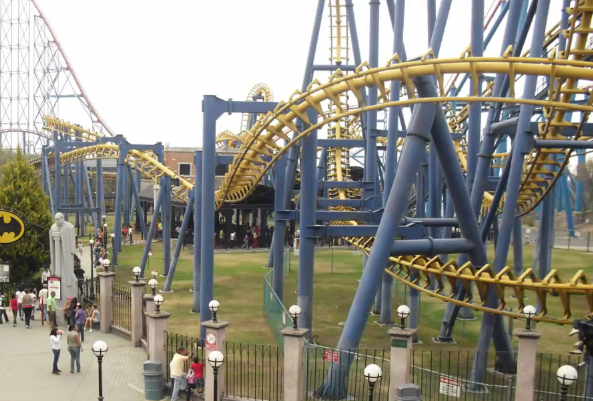 Six Flgs Ciudad de Mexico City Batman 2